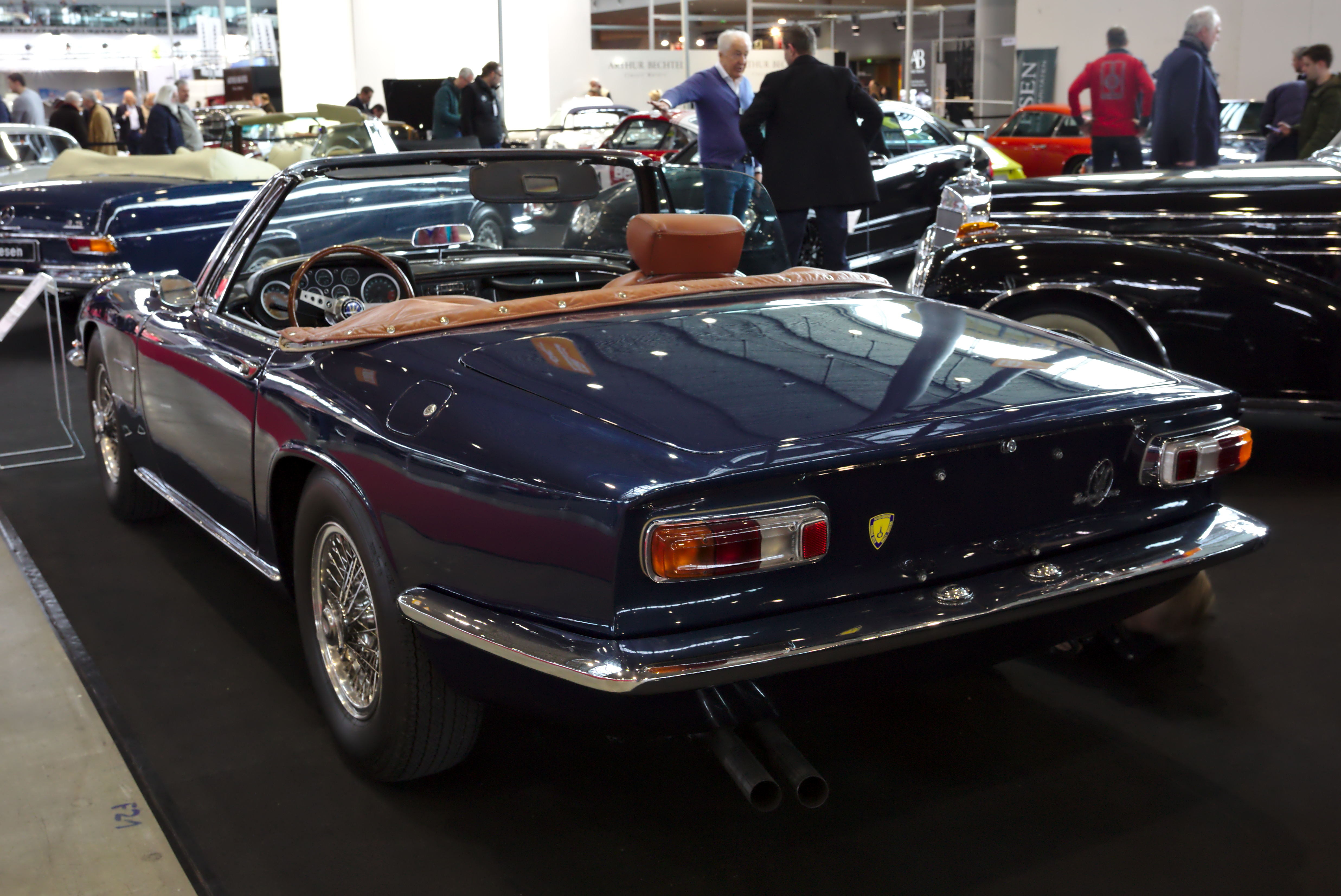 Maserati Mistral 4000 Spider at Retro Classics 2018